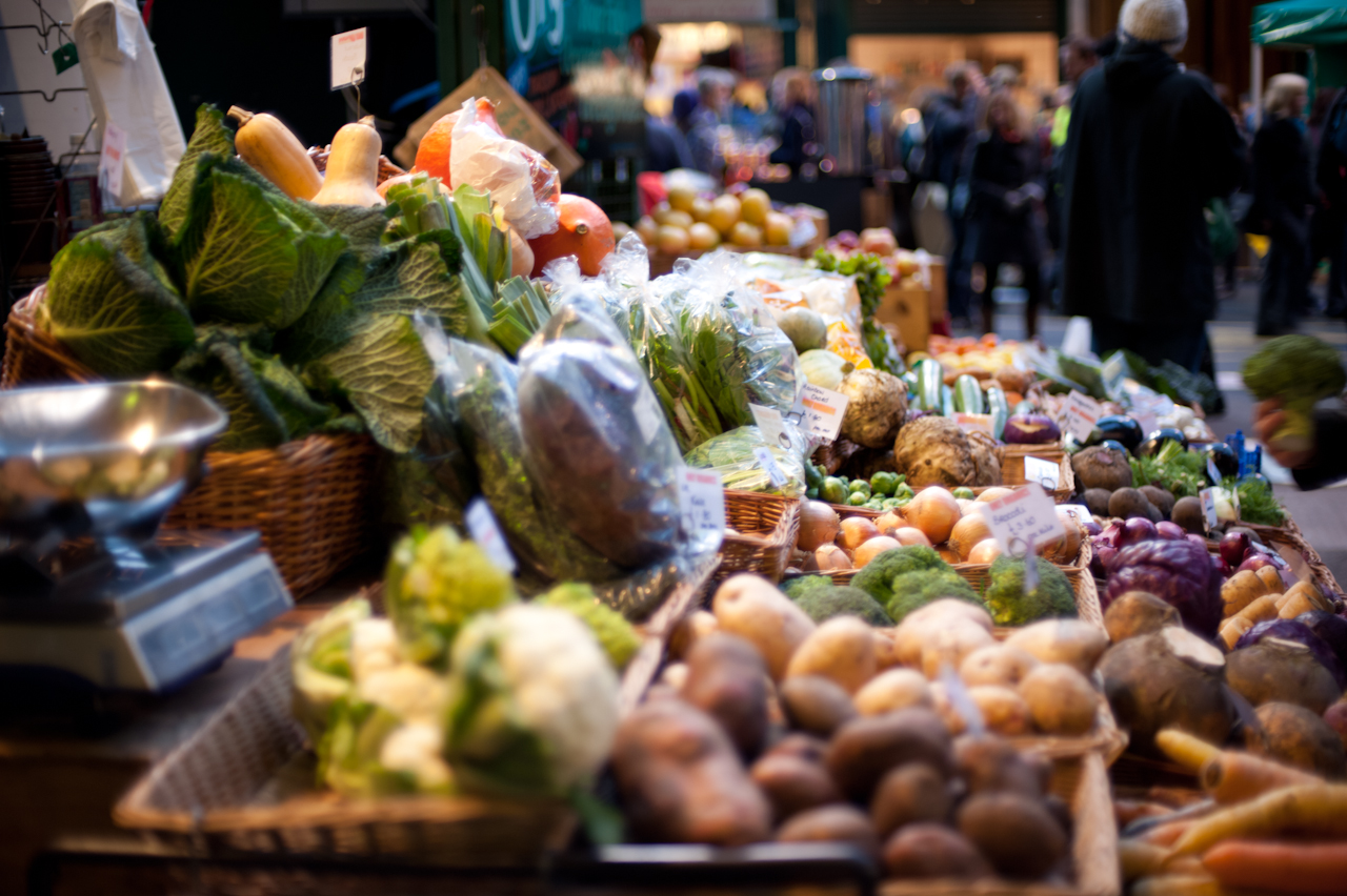 A vegetable stall at Borough Market in London, UK